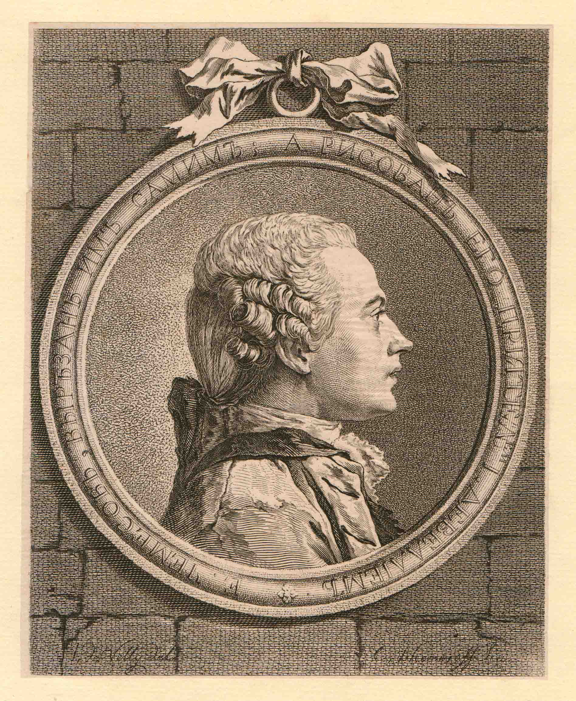 Автопортрет. 1765 г.